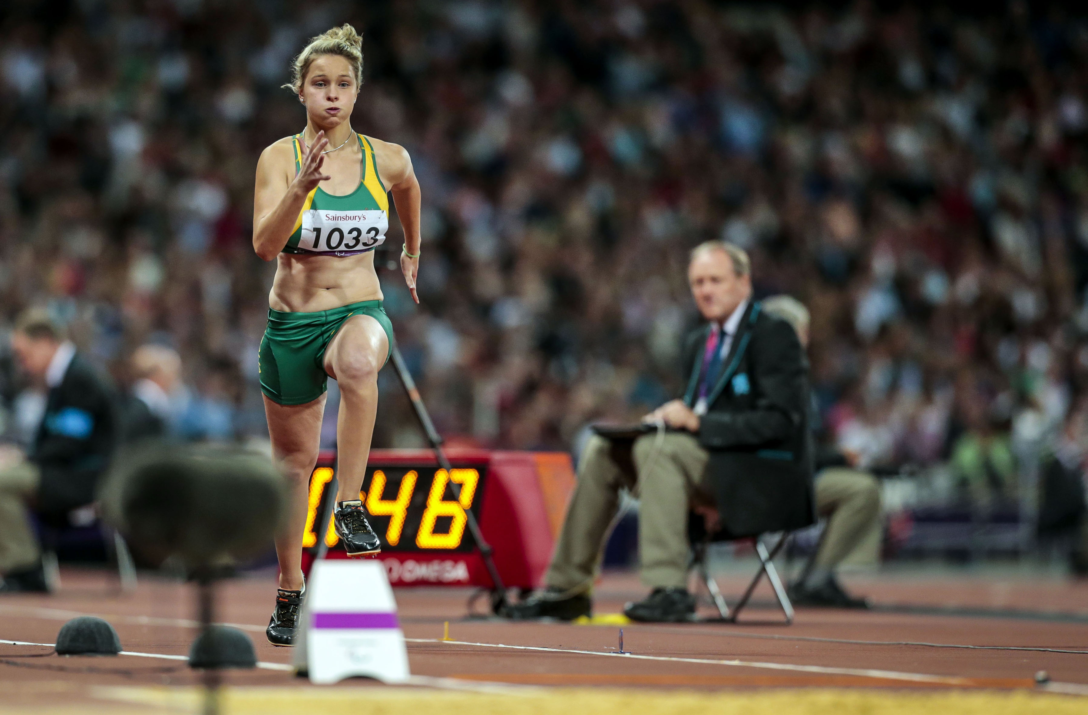 Photograph of Australian Paralympic team member Stephanie Schweitzer at the 2012 Summer Paralympic Games in London